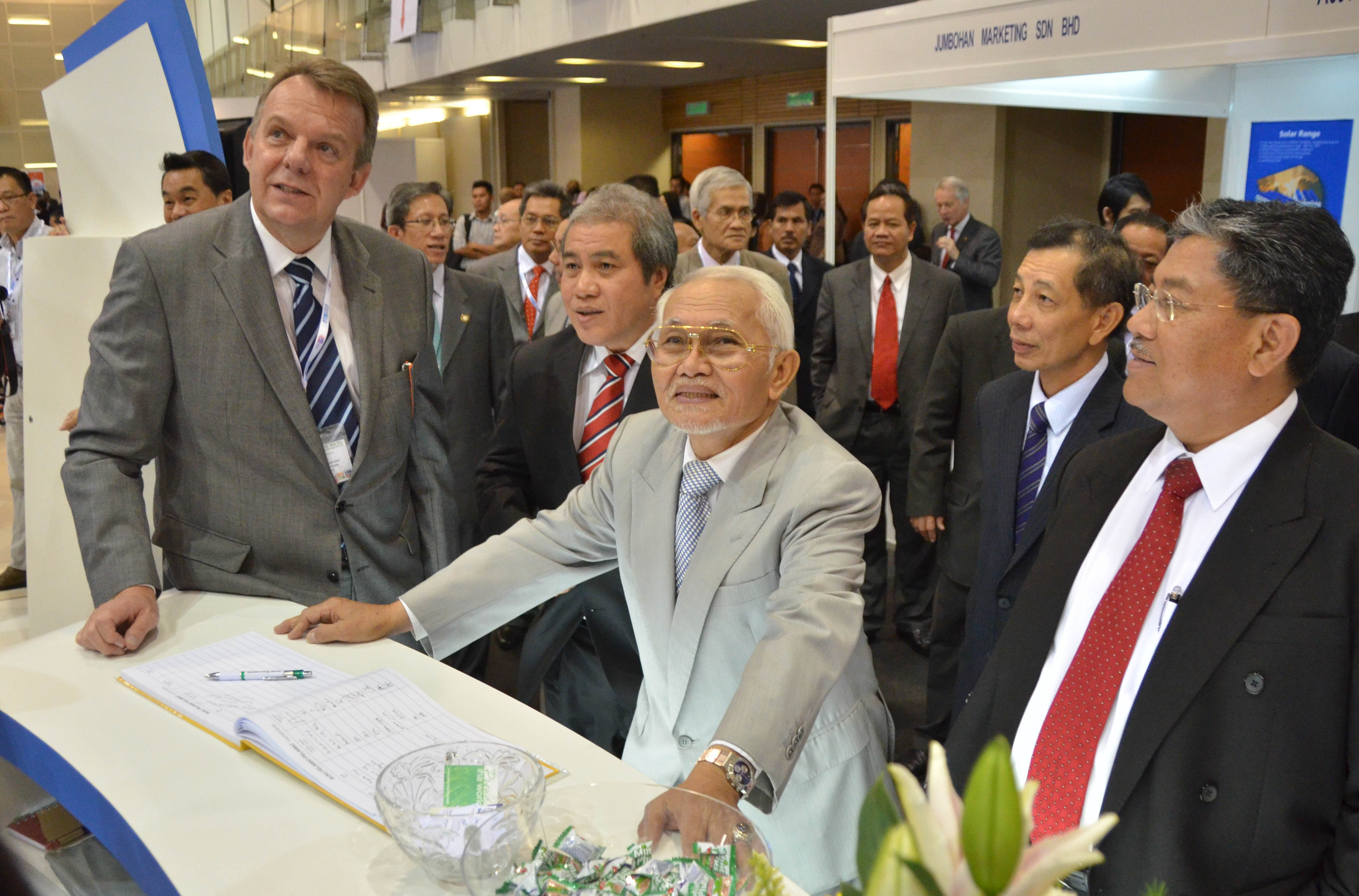 International Energy Week (IEW) was held at Borneo Convention Centre, Kuching, Sarawak from 16 to 18 October 2012. Pictured from left to right: Torstein Dale Sjøtveit (CEO of Sarawak Energy Berhad), Awang Tengah Ali Hassan ( Sarawak minister of Second Resource Planning and Environment), and Abdul Taib Mahmud (Sarawak chief minister)